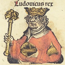 Louis X of France, son of Philip IV